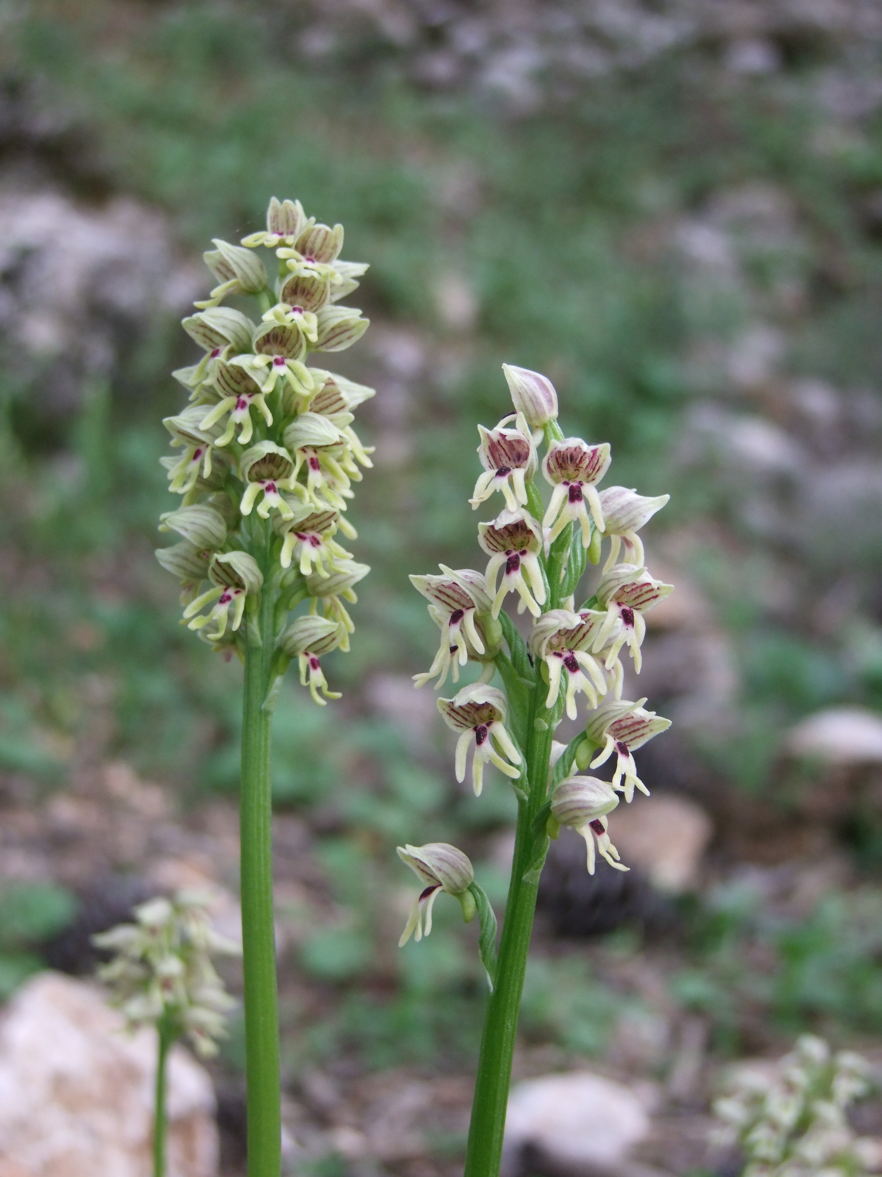 Flowers in Jerusalem forest, spring 2012